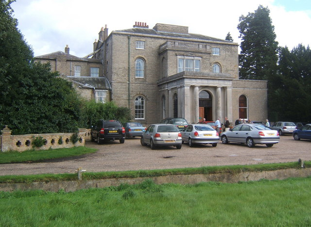 Letton Hall Christian Centre A Grade II* listed country hall, now established as a Christian Centre for 20 years.